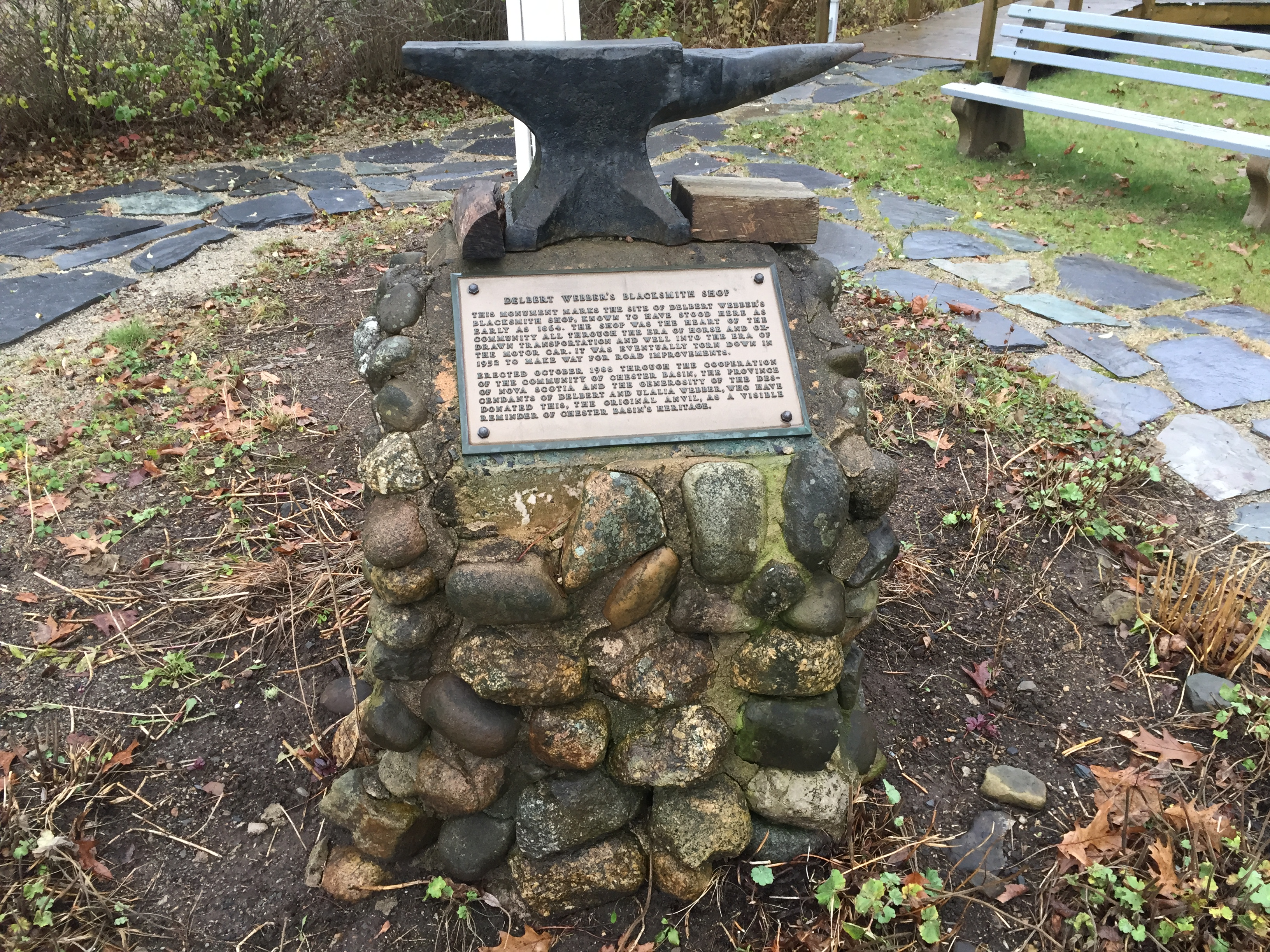 Anvil Park, Chester Basin